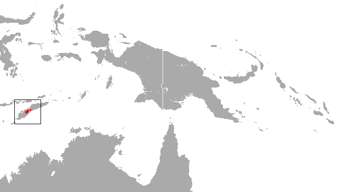 Timor Roundleaf Bat (Hipposideros crumeniferus) range